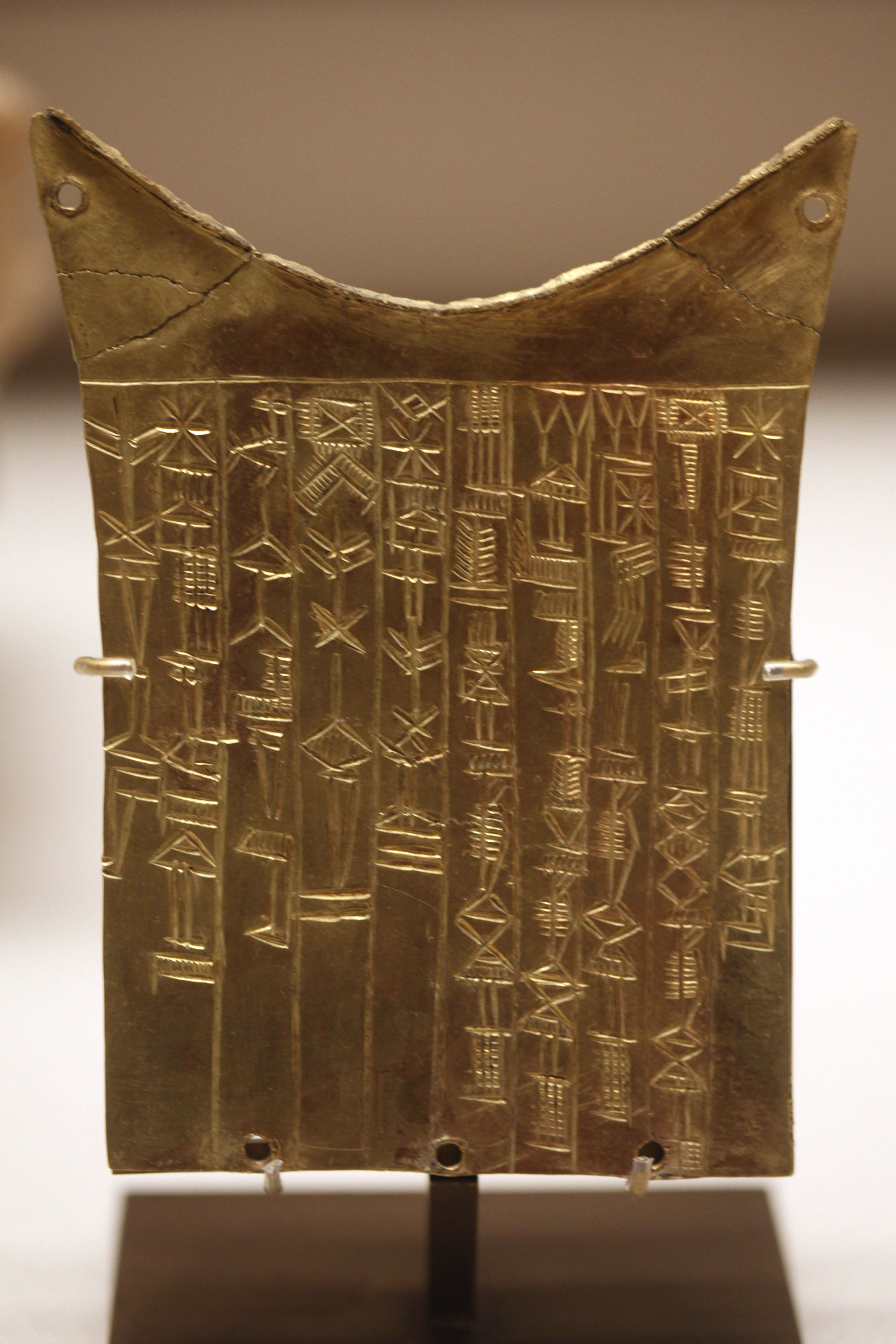 Offered by Bara-Irnum, queen of Umma, to God Shara in gratitude for sparing her life.